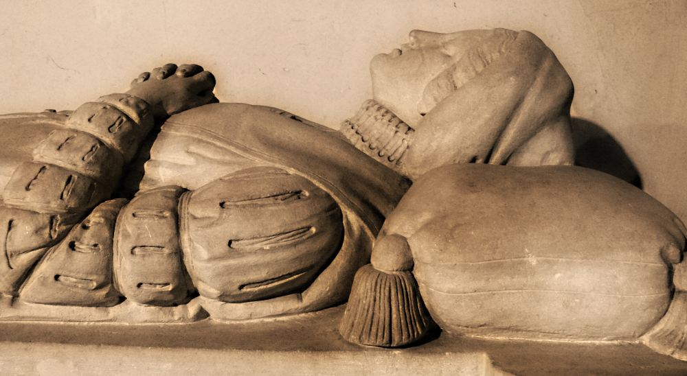 Beatrice of Savoy (1201-1266)